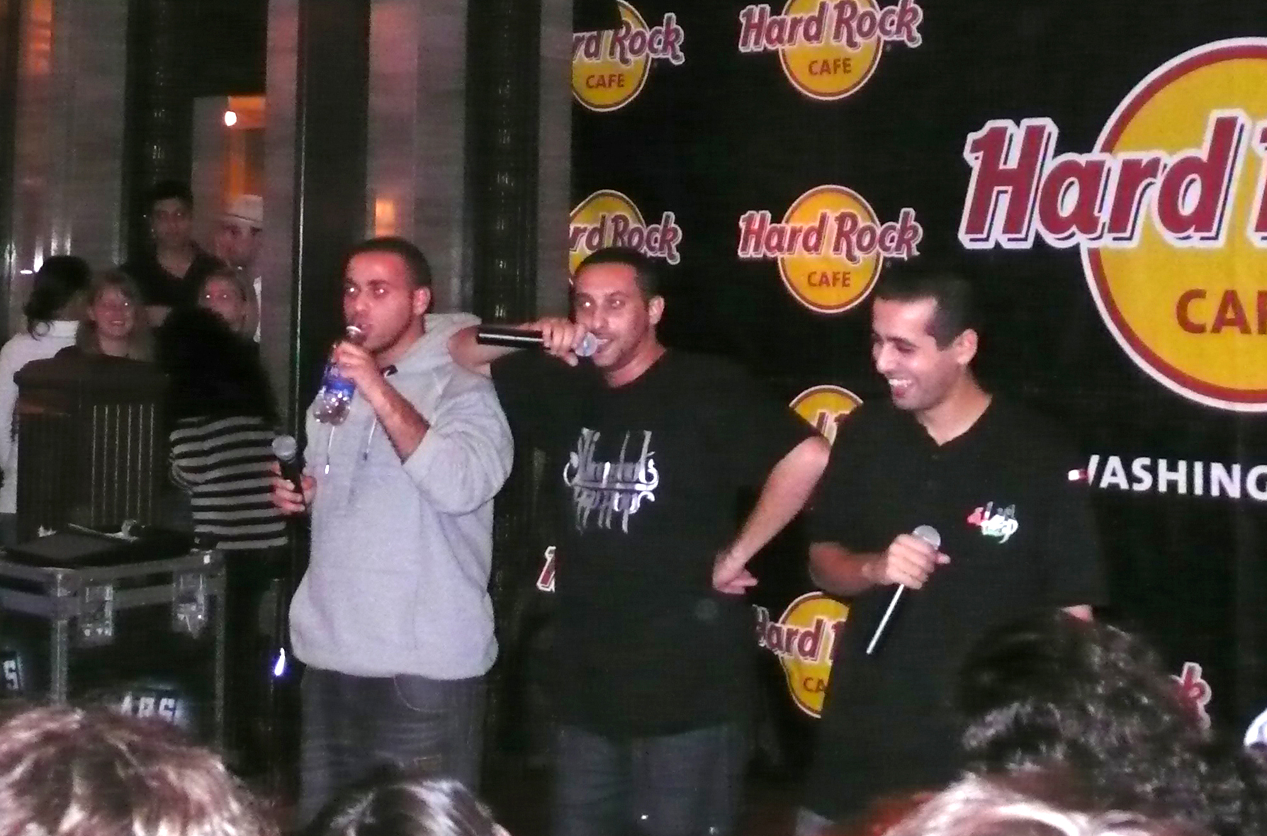 Palestinian rap group DAM at the Hard Rock Cafe in Washington, D.C.